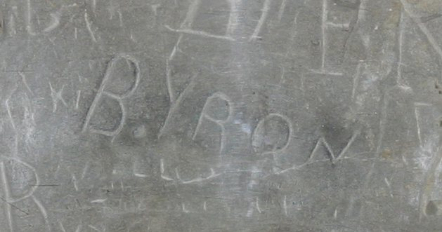 Castel of Chillon